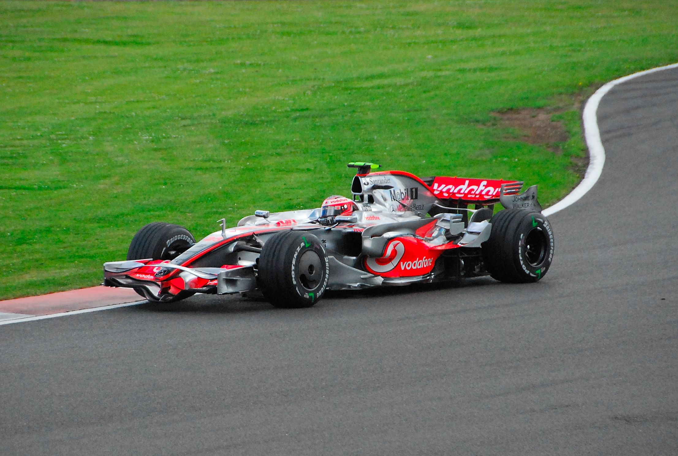 Heikki Kovalainen driving for McLaren at the 2008 British Grand Prix.